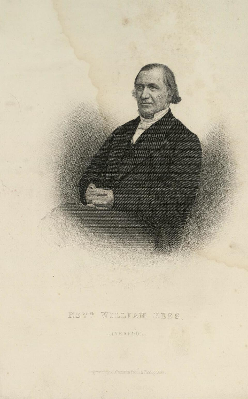 A portrait from the Welsh Portrait Collection at the National Library of Wales. Depicted person: William Rees – Welsh minister and writer